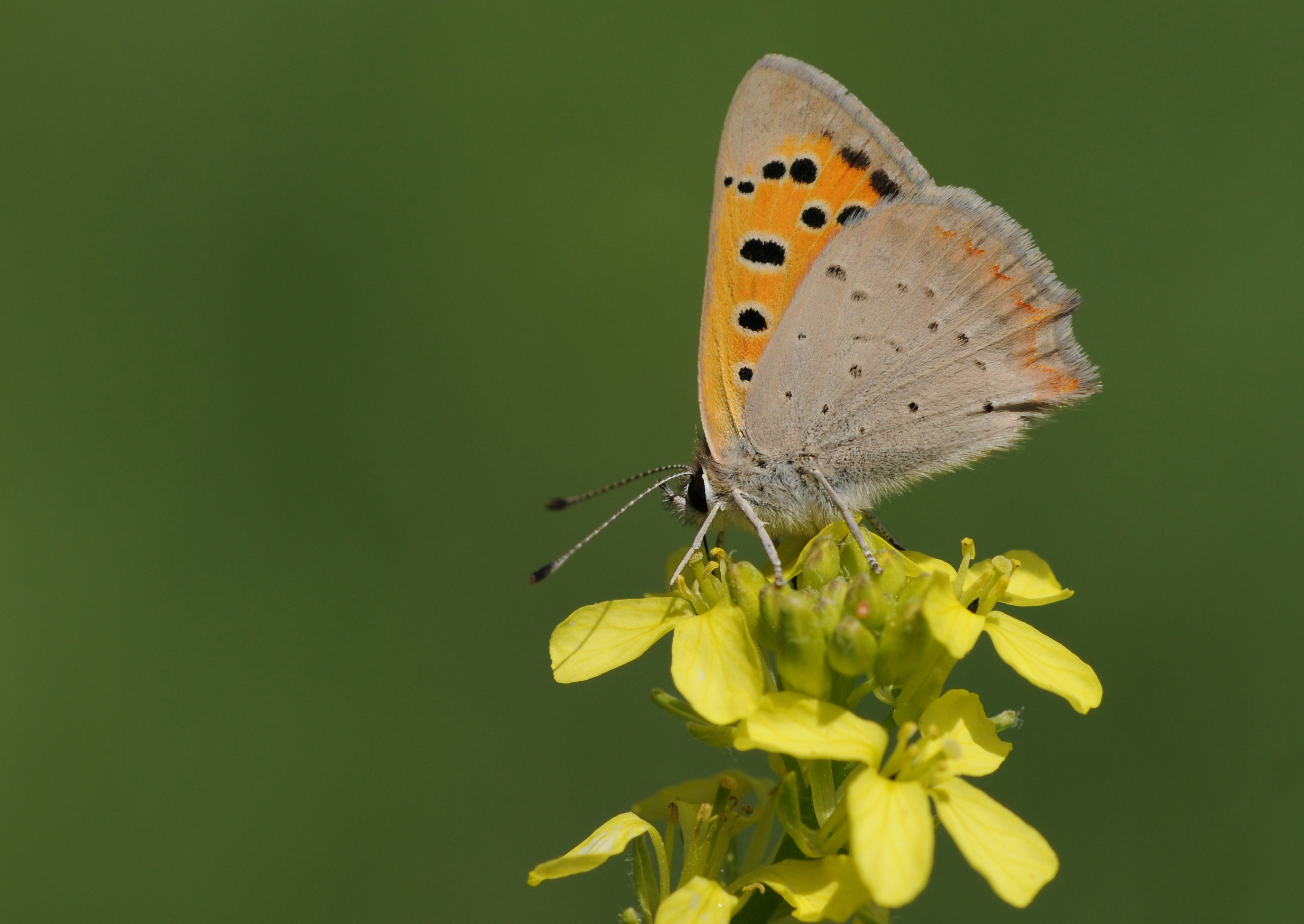 Wing underside view of male common copper (Lycaena phlaeas) butterfly feeding on flowers of wild mustard (Sinapis arvensis). Adana, Turkey.